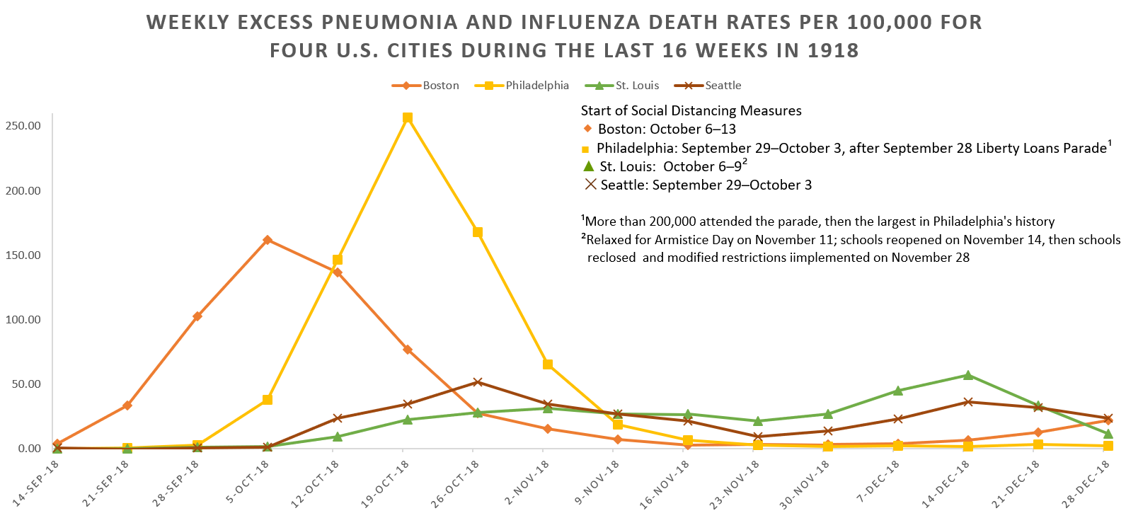 Comparison of Boston, Philadelphia, St. Louis, and Seattle death rates for the last 16 weeks of 1918 during the 1918 influenza pandemic. Based upon 10941Table11.xls from *Hatchett, Richard J. (2007-04-06). "Public health interventions and epidemic intensity during the 1918 influenza pandemic". Proceedings of the National Academy of Sciences 104 (18): 7582–7587. Proceedings of the National Academy of Sciences. ISSN 0027-8424.